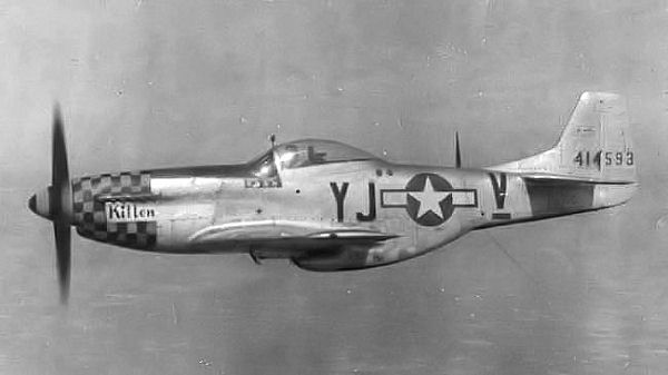 P-51D-10-NA Serial 44-14593 of the 351st Fighter Squadron, 353d Fighter Group, based at RAF Raydon, England.